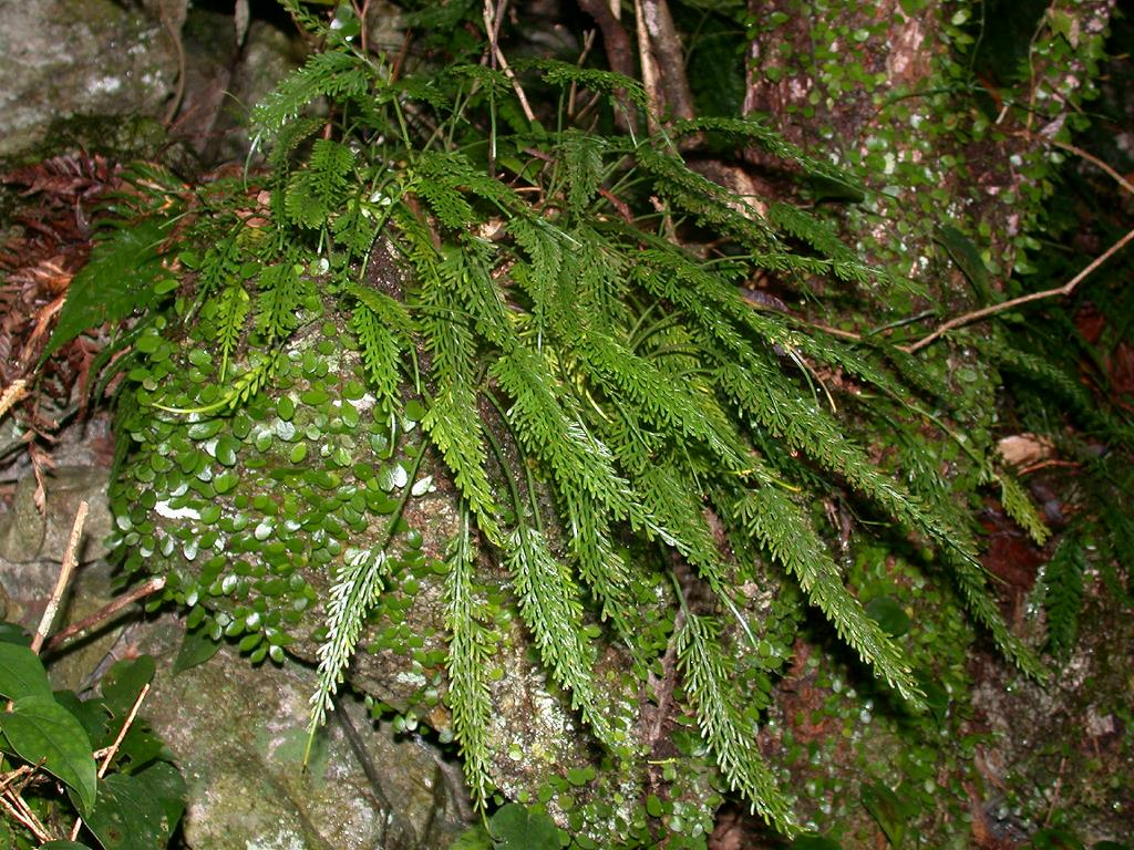 Asplenium prolongatum(Aspleniaceae) Japanese name:Hinokisida Date;2006,11;Susami town, Wakayama prefecture, Japan Author;Keisotyo